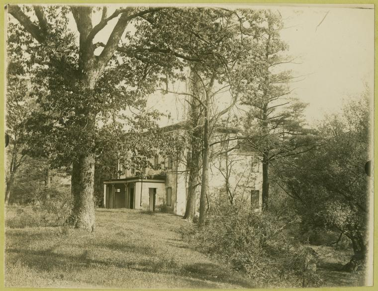 Front view of the Princess Zenaide's residence, Bordentown, New Jersey